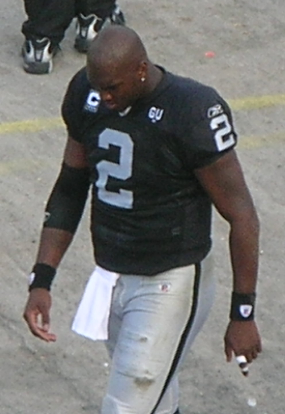 Oakland Raiders quarterback JaMarcus Russell on the sidelines during a home game against the Atlanta Falcons. The Falcons won 24-0.